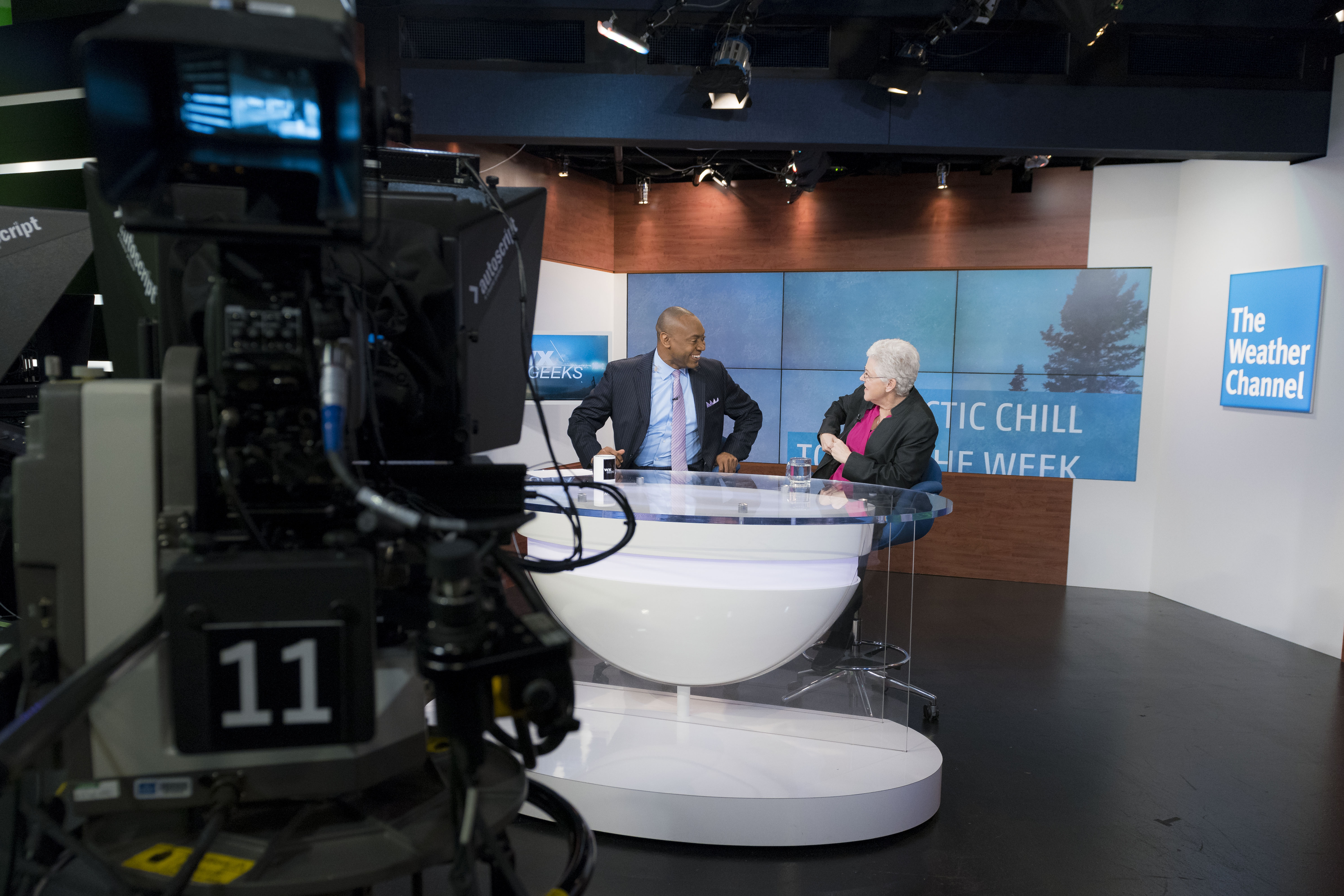 2:58 p.m.: The administrator joins Dr. Marshall Shephard, host of The Weather Channel’s show Weather Geeks, for a conversation about the impacts of climate change and the economic and environmental costs of inaction. The segment will air on February 15 at noon. Stay tuned!